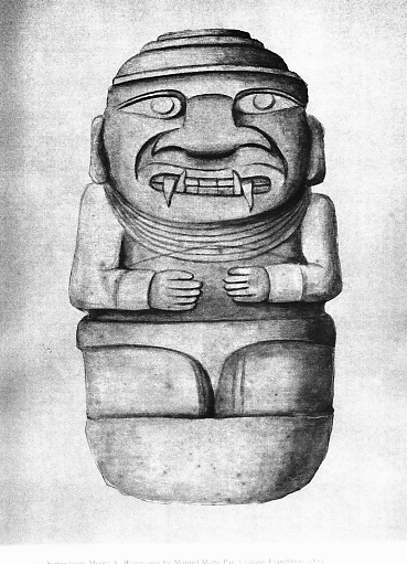 Watercolor from the research of the Italian geographer Agustin Codazzi